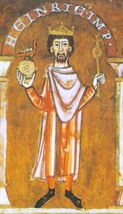 Henry IV, Holy Roman Emperor, miniature from the Emmeram Evangeliary